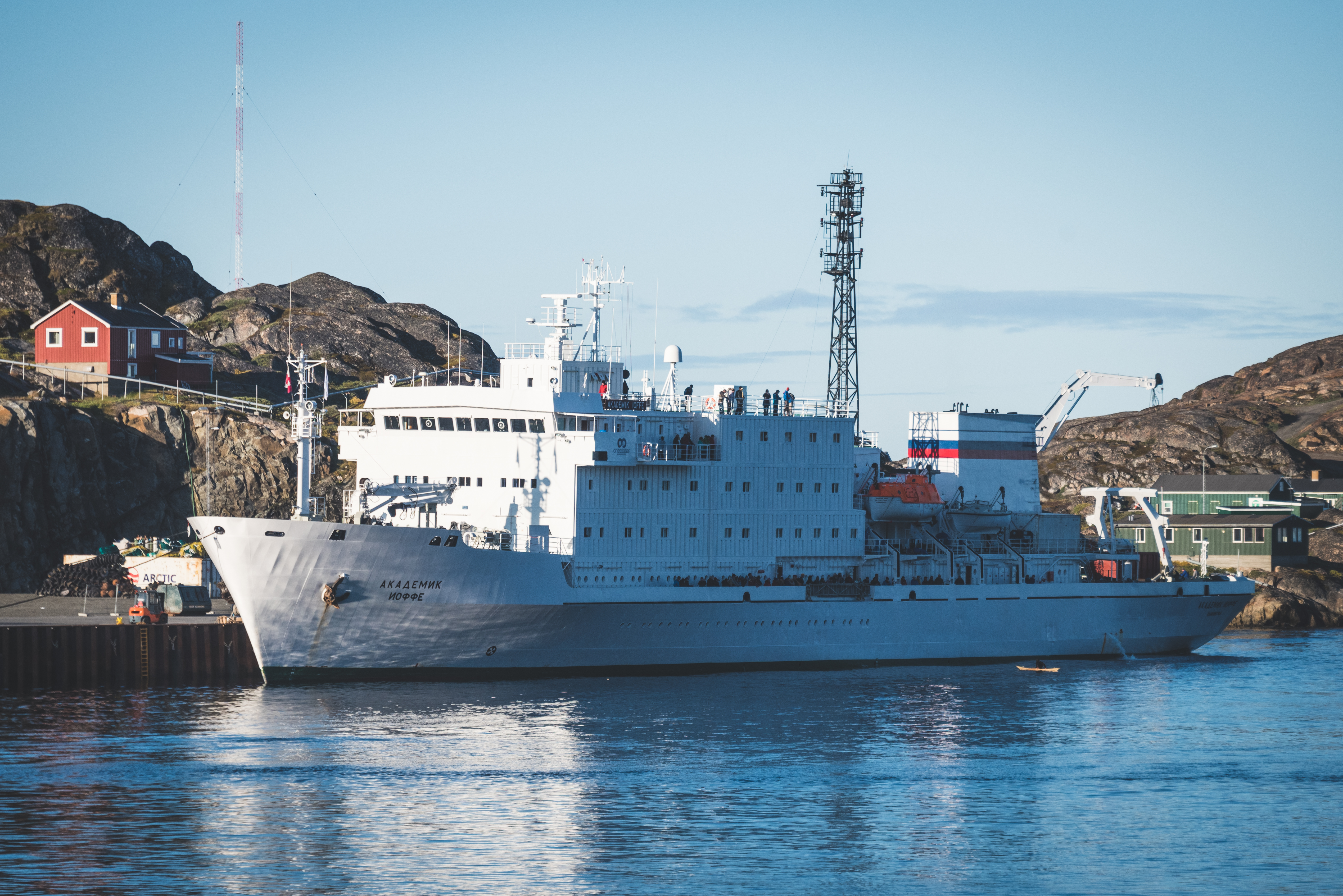 Expedition ship, AKADEMIK IOFFE - IMO 8507731, in the harbor at Sisimiut, Greenland on September 4, 2017.